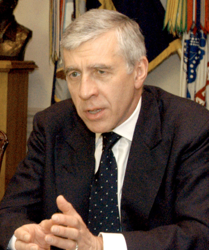 British Foreign Secretary Jack Straw meets with Secretary of Defense Donald H. Rumsfeld in the Pentagon. A number of bilateral security issues were discussed. Straw and United Kingdom Ambassador to the United States Sir David Manning represented Britain.